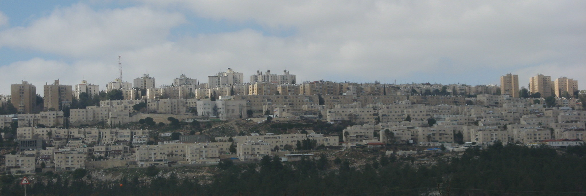 Neve Yaakov from the east. The lower part is the Haredi Kamenitz section.